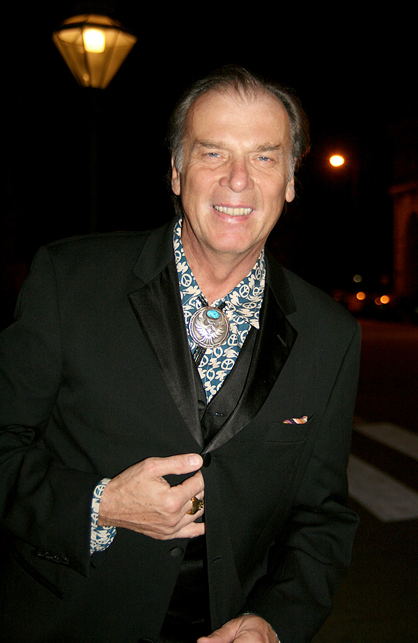 Wolfgang Fierek at the Vienna Film Ball 2010 (Vienna city hall).